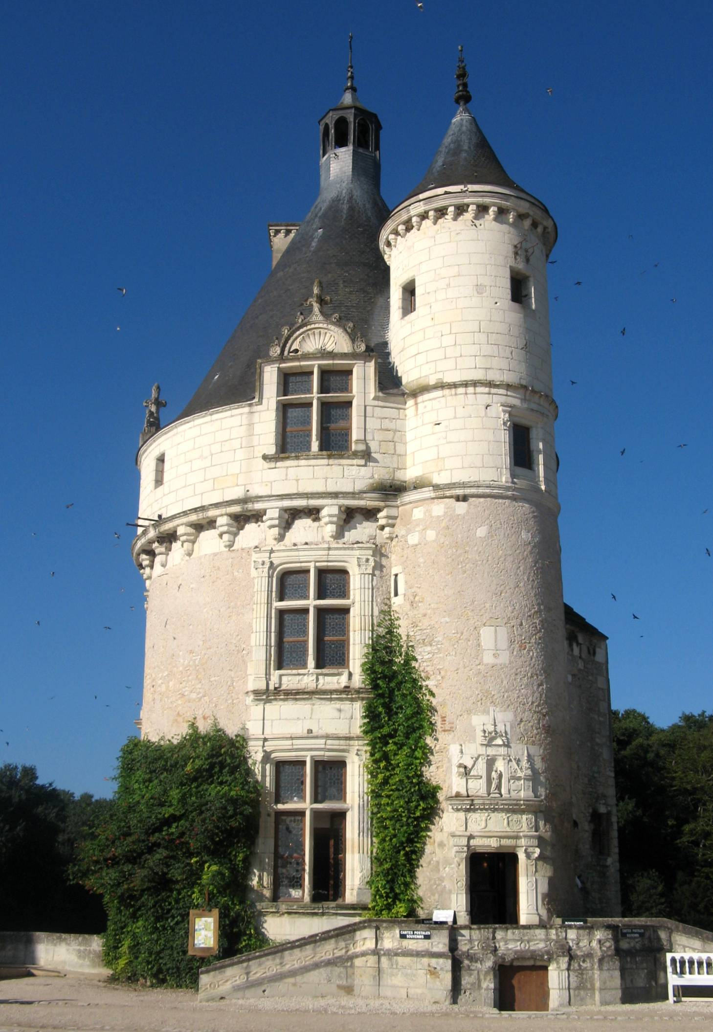 The château de Chenonceau, Tour des Marques